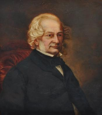 Portrait in oils of Isaac Reckitt, 1906, by Michael Anthony Hilliard Willson (1863-1943) of Leeds, West Yorkshire, England. Note: This work was originally paired with a portrait of Ann Reckitt.